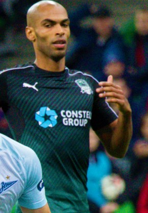 27.11.2016. Россия, Краснодар, стадион «Краснодар». РОСГОССТРАХ-Чемпионат России 2016/17, 15-й тур, «Краснодар» — «Зенит».